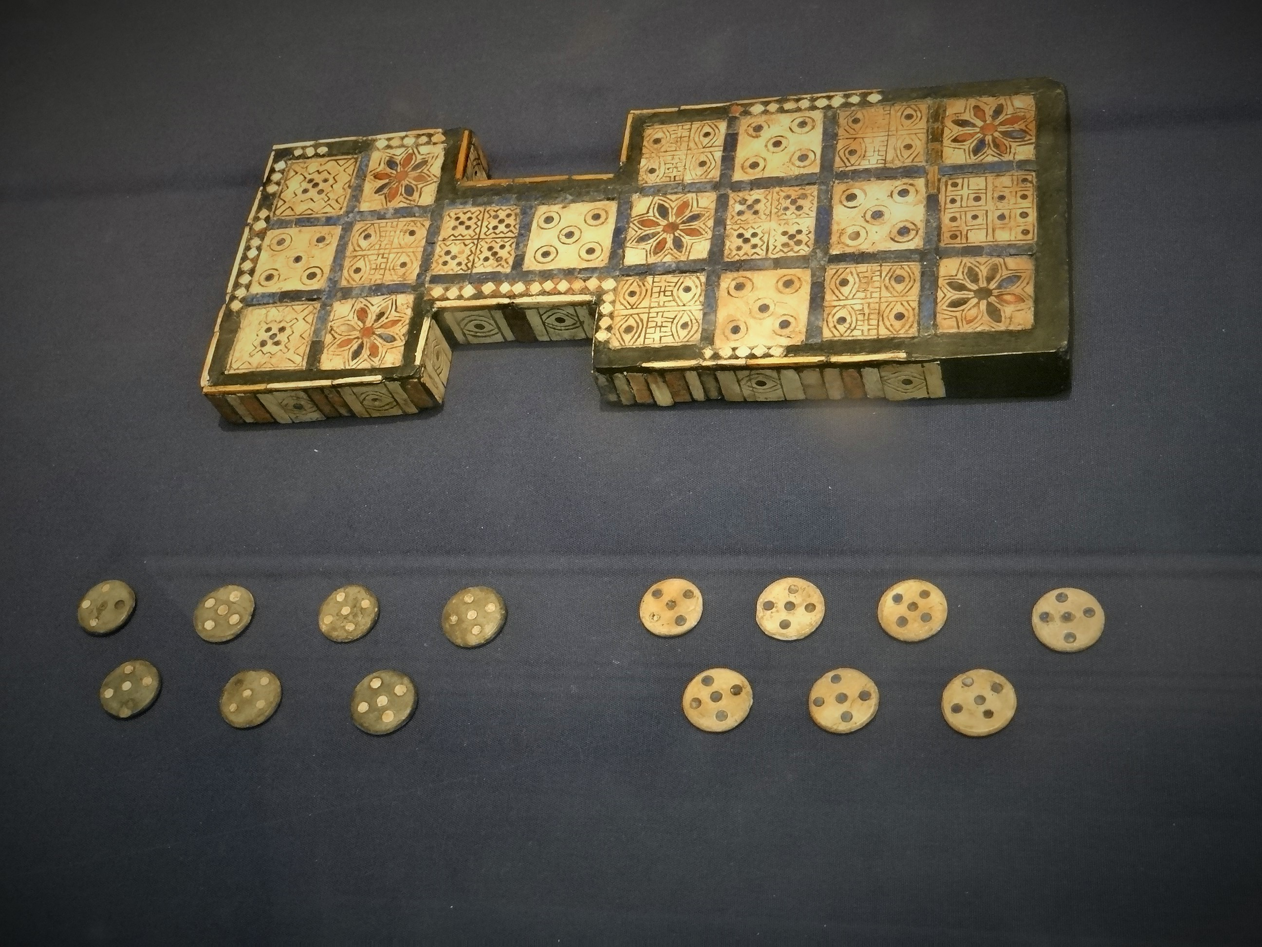 One of the five game boards found by Sir Leonard Woolley in the Royal Cemetery at Ur, now held in the British Museum